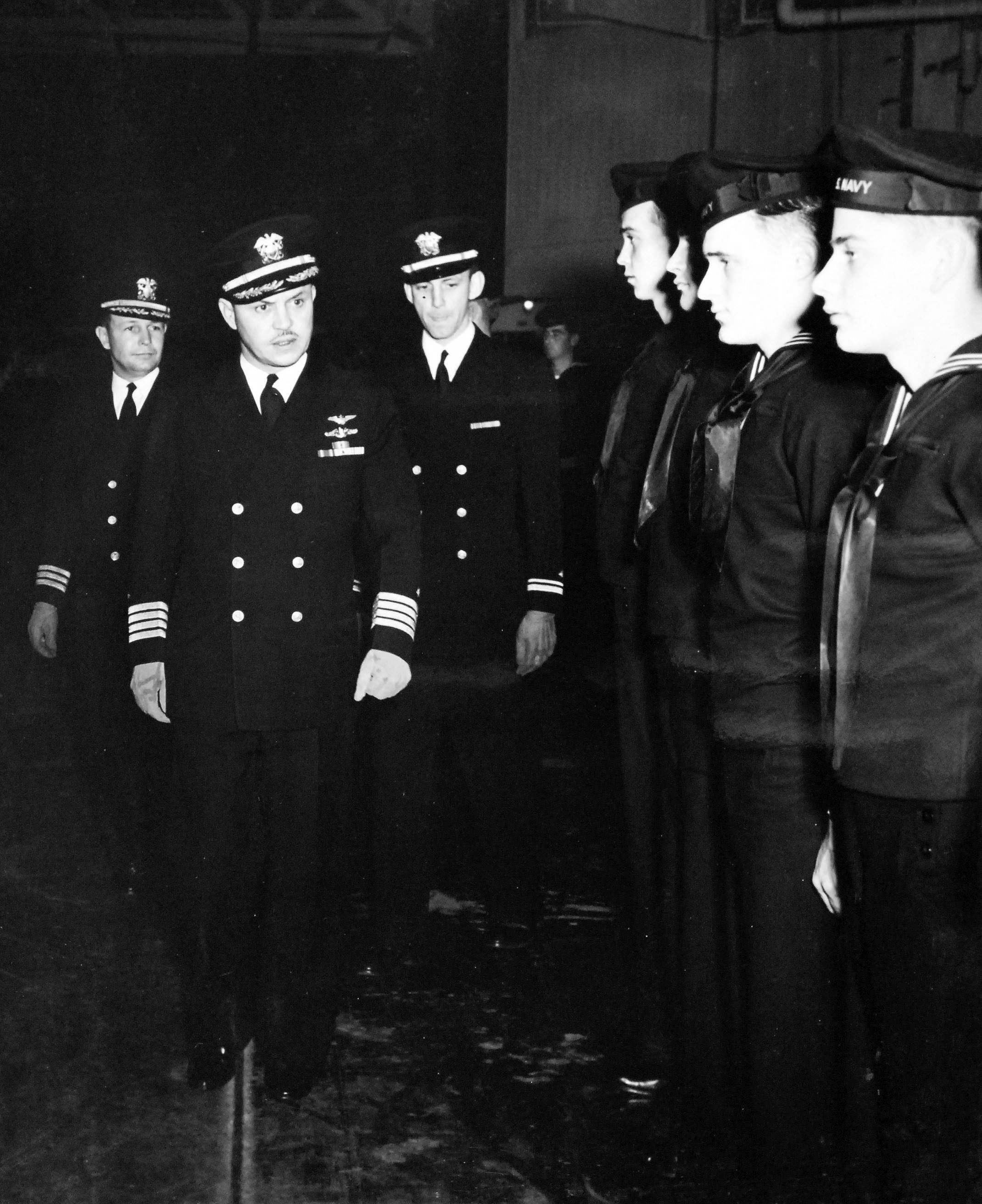 Initial inspection on board USS Gambier Bay (CVE 73), January 22, 1944 by Captain Hugh H. Goodwin, USN. “Suck ‘em In” crew of Gambier Bay receive a thorough going over by Captain Goodman assisted by Executive Officer, Commander Richard R. Ballinger, USN, January 22, 1944. Official U.S. Navy Photograph, now in the collections of the National Archives. (2015/03/04).